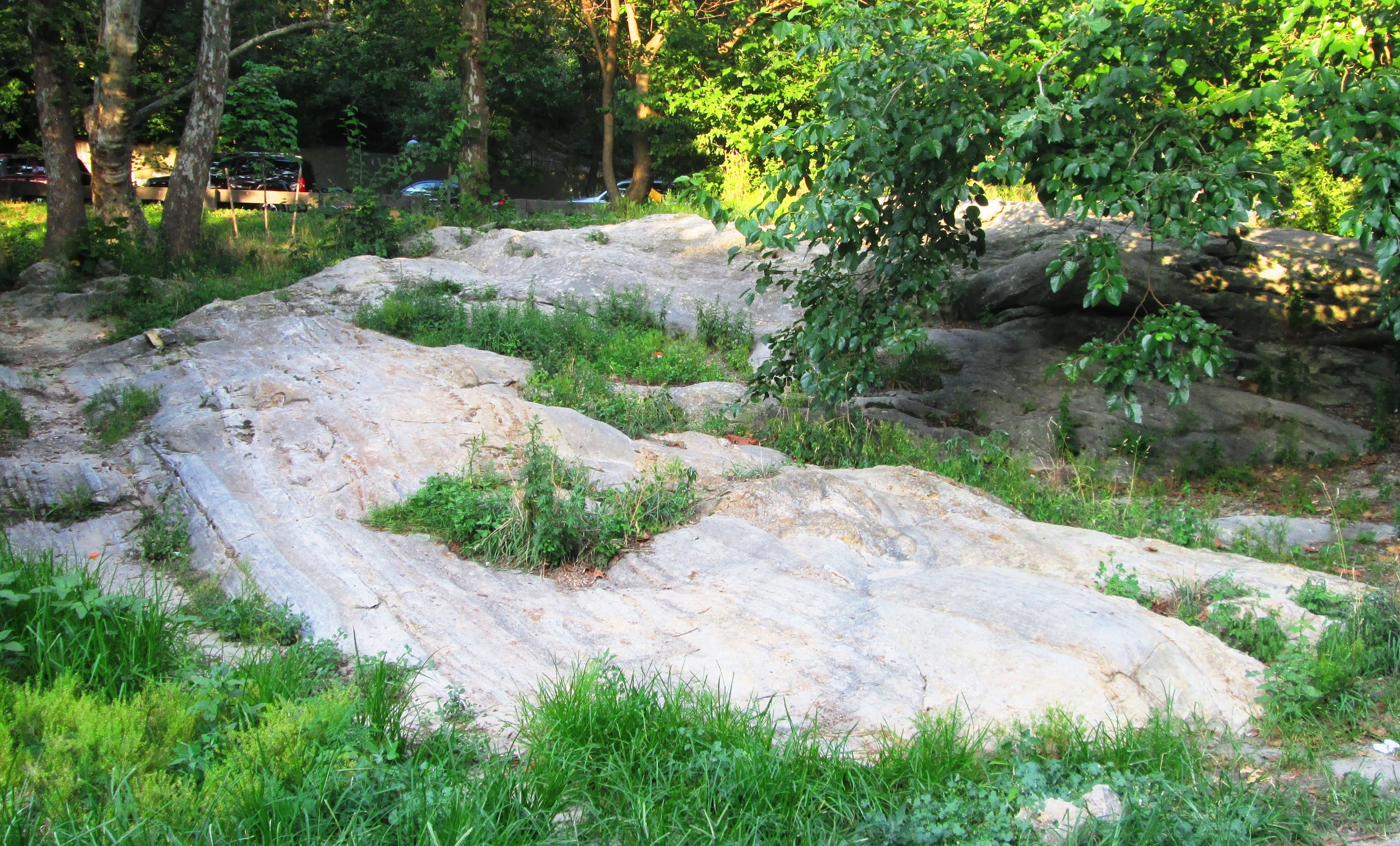 An outcopping of marble in Isham Park in the Inwood neighborhood of Manhattan, New York City. This location is one of the very few in Manhattan where there is marble visible on the surface. (Sources: Concrete Jungle p.43) and Parks Dept: Isham Park Highlights